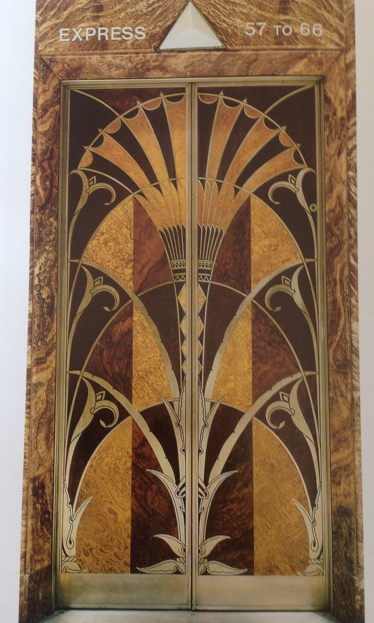 Elevator doors of the Chrysler Building (1927-30) by William Van Alen, made of plaques of wood and metal